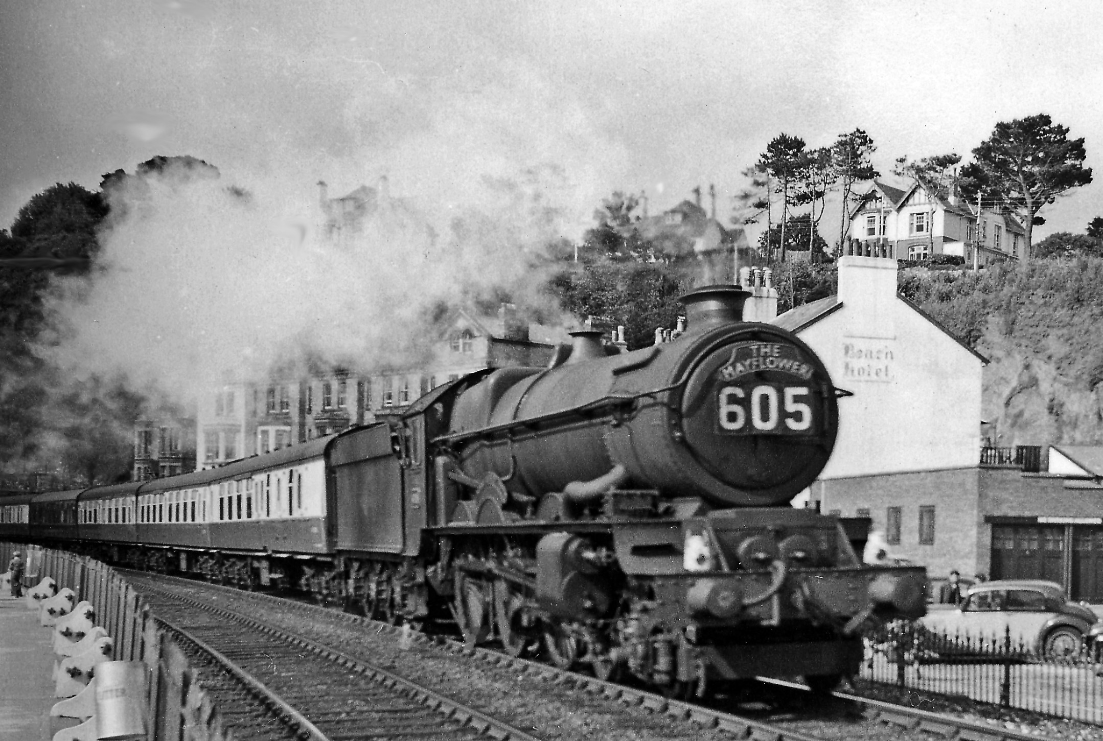 Up 'Mayflower' approaching Dawlish. View SW, towards Newton Abbot and Plymouth; ex-GWR South Devon main line. The 'Mayflower' (08.30 Plymouth North Road - Paddington, due 13.25) has a mighty 'King' as usual, No. 6018 'King Henry VI' (built 6/28, withdrawn 12/62).